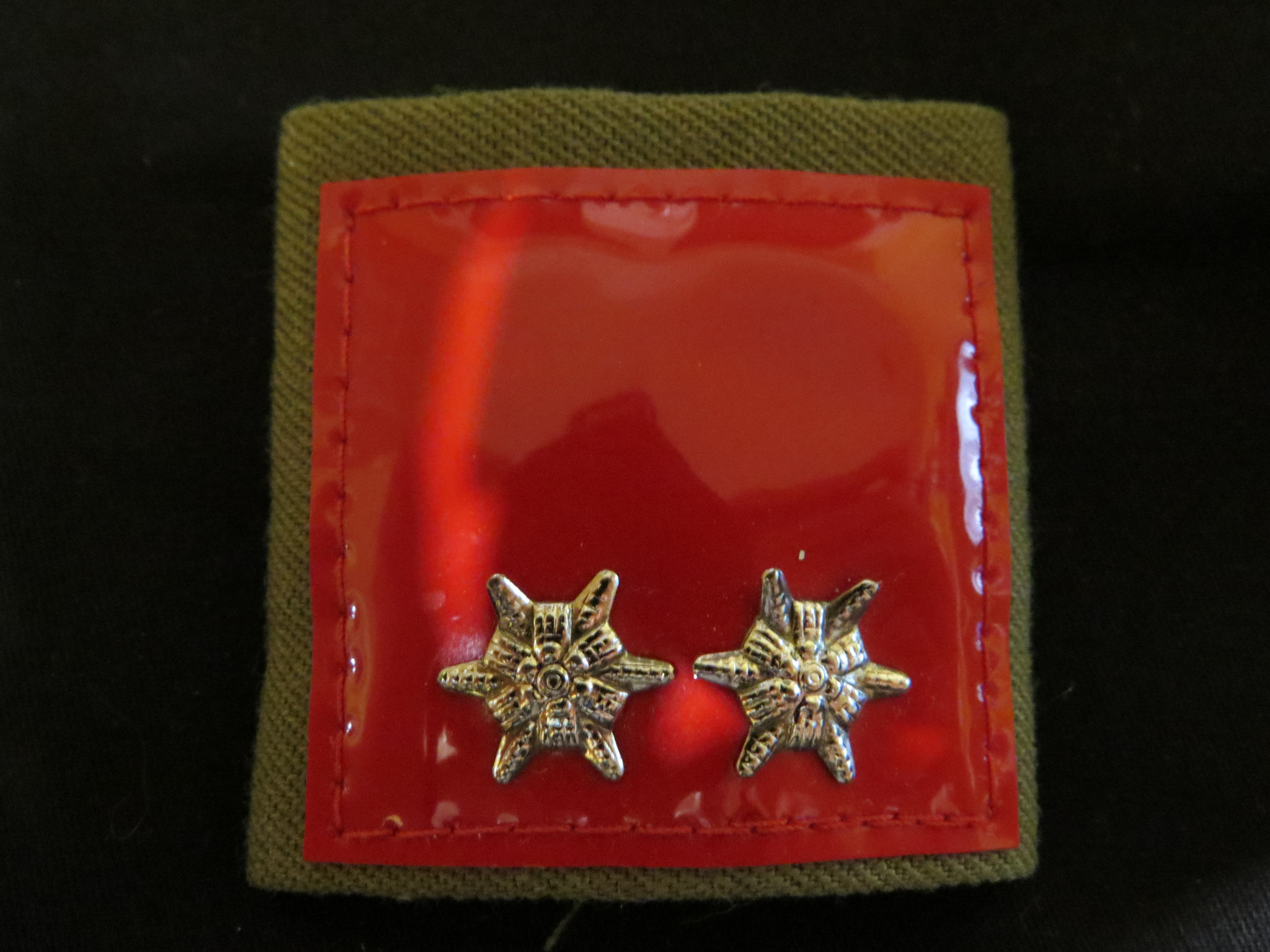 Old rank insignia Oberfeuerwehrmann for Firefighters of Lower Austria